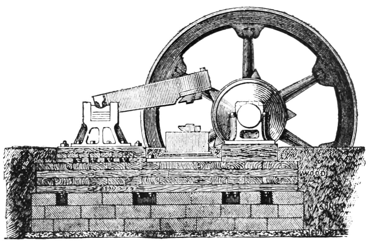 A Trip-Hammer.